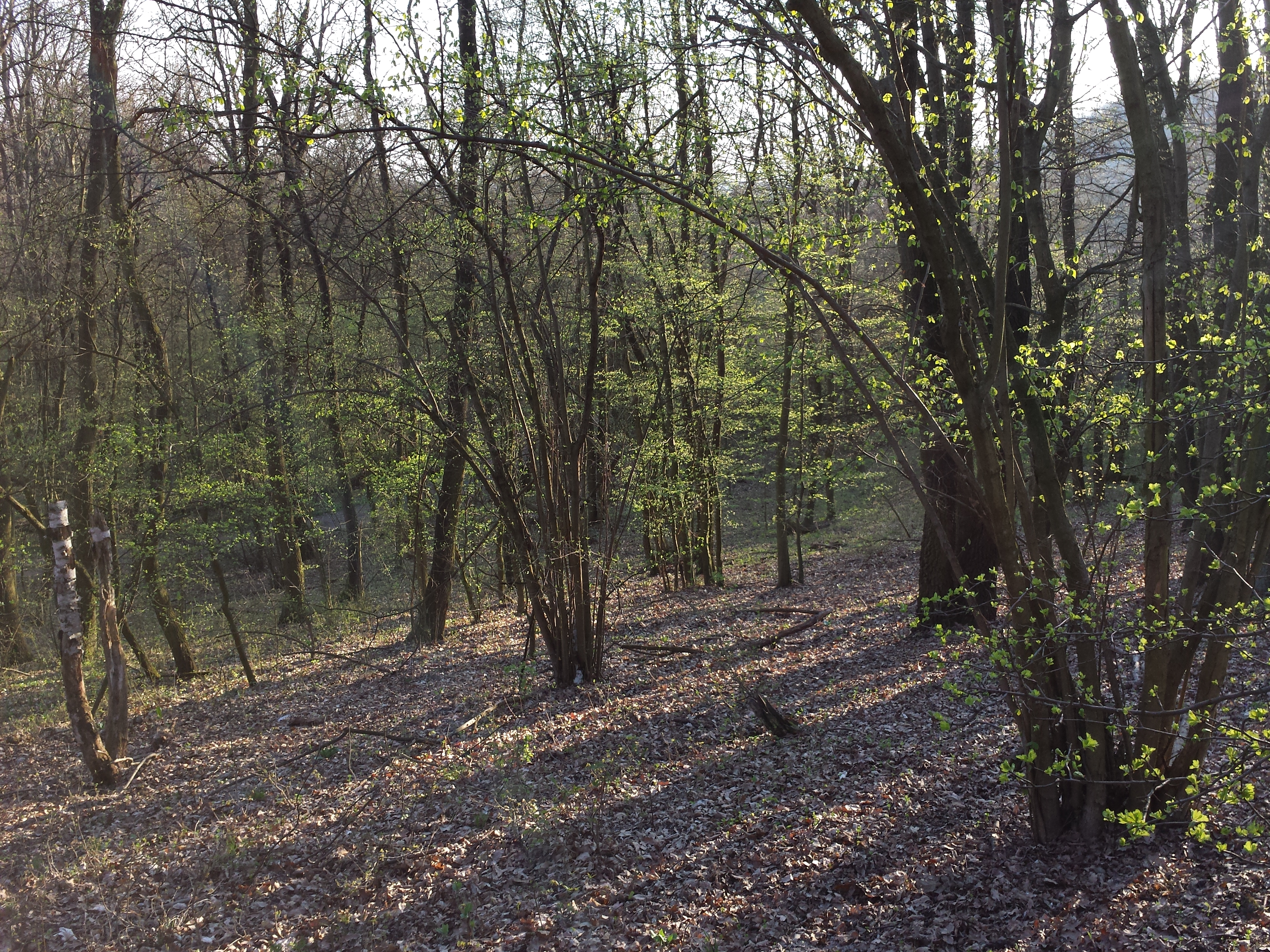 Location: Rohrwald, district Korneuburg, Lower Austria - ca. 300 m a.s.l. Habitat: xerotherme wood of Quercus cerris